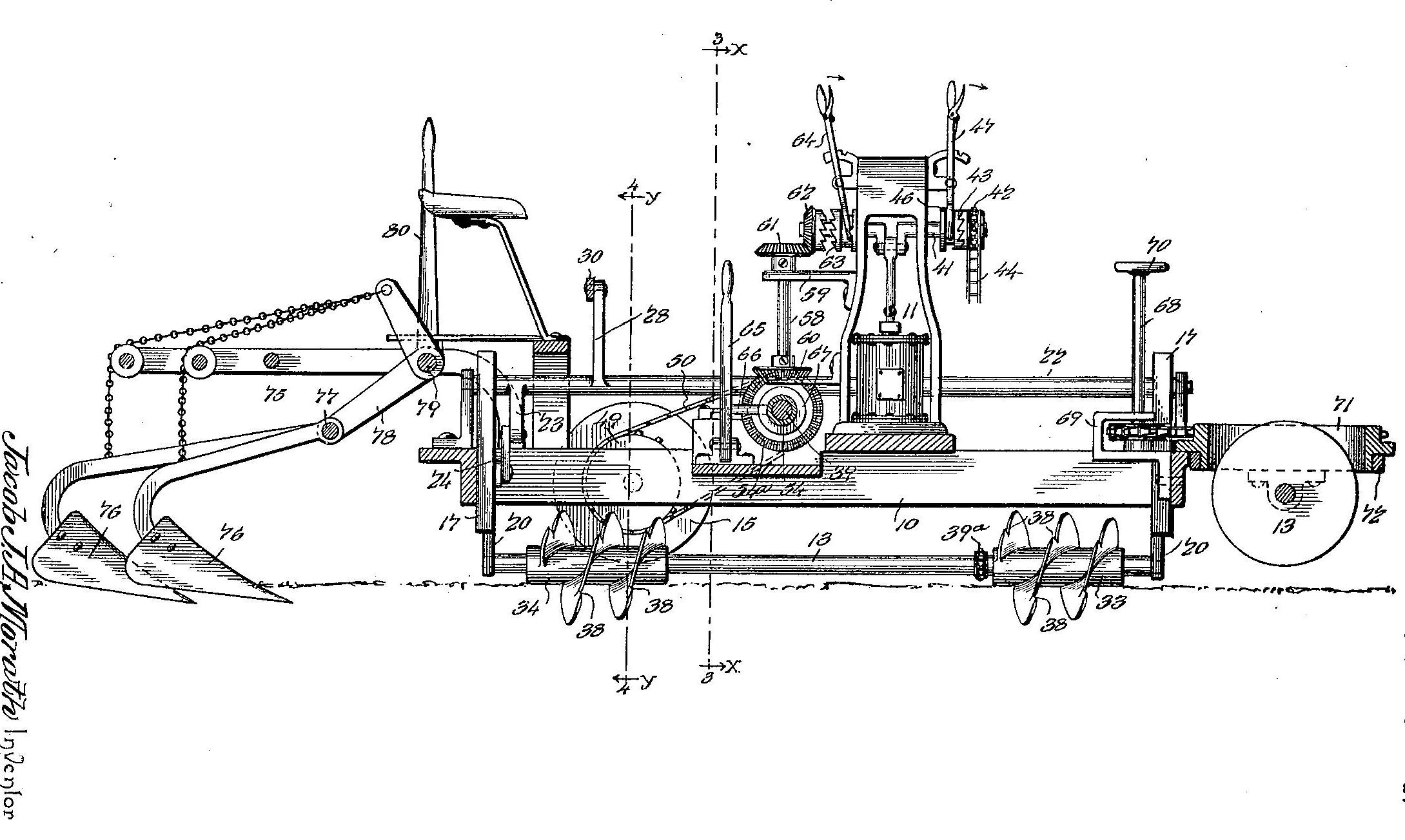 Agricultural Machine. An early patent for an auger driven farm tractor. The patent was filed and granted in 1899. The fate of the original author is not known, but given the date of publication he certainly died more than 70 years ago.